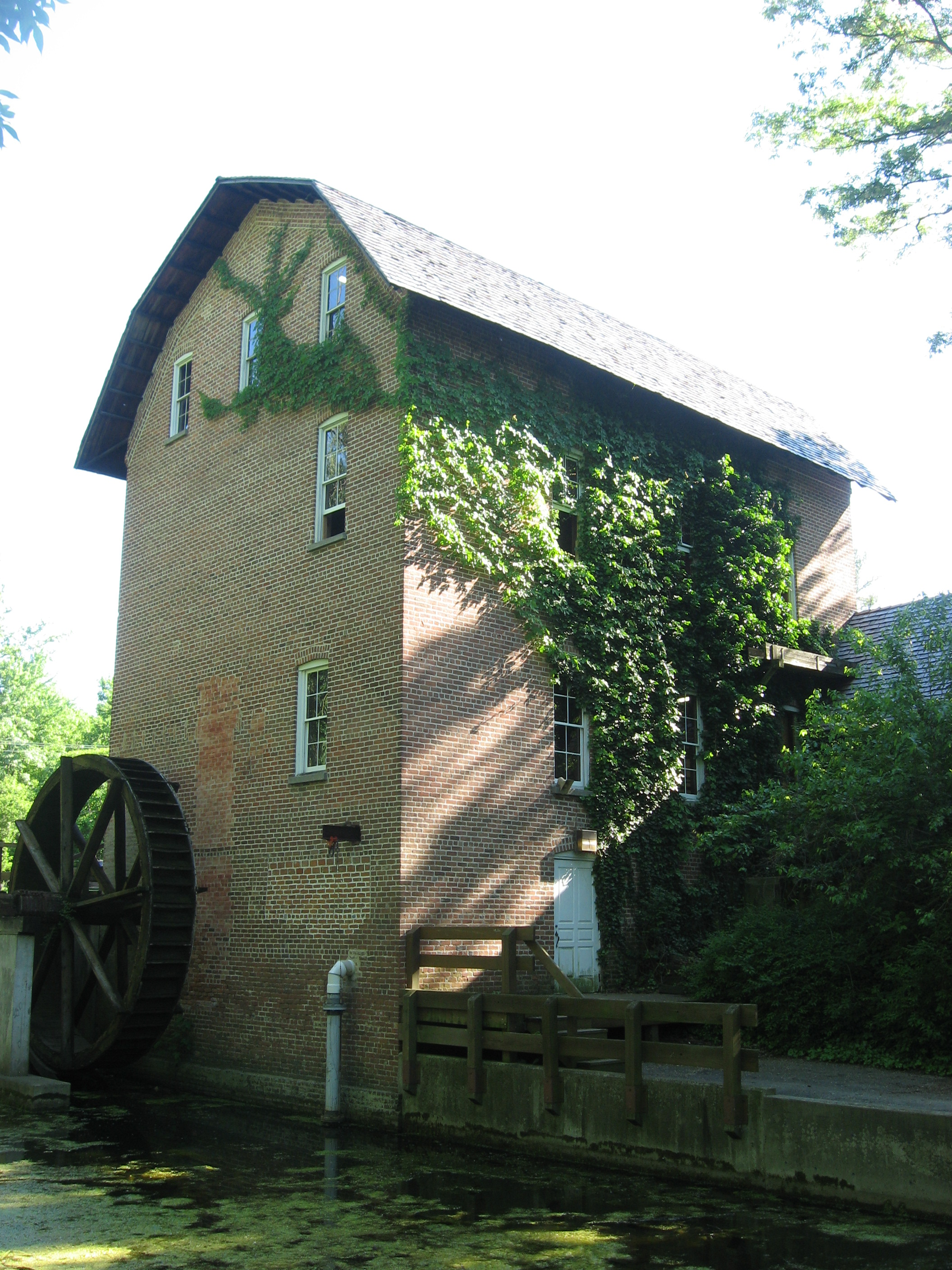 Western and southern sides of the John Wood Old Mill, located along State Road 330 in far eastern Merrillville, Indiana, United States. Built in 1838, it is listed on the National Register of Historic Places.